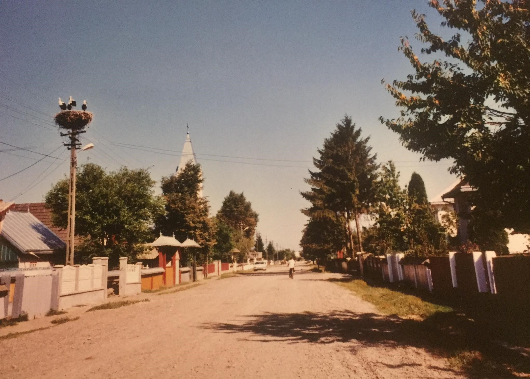 2007 trip to Măneuți - Andrásfalva - Old settlements of Szekelys. Main street view, Church